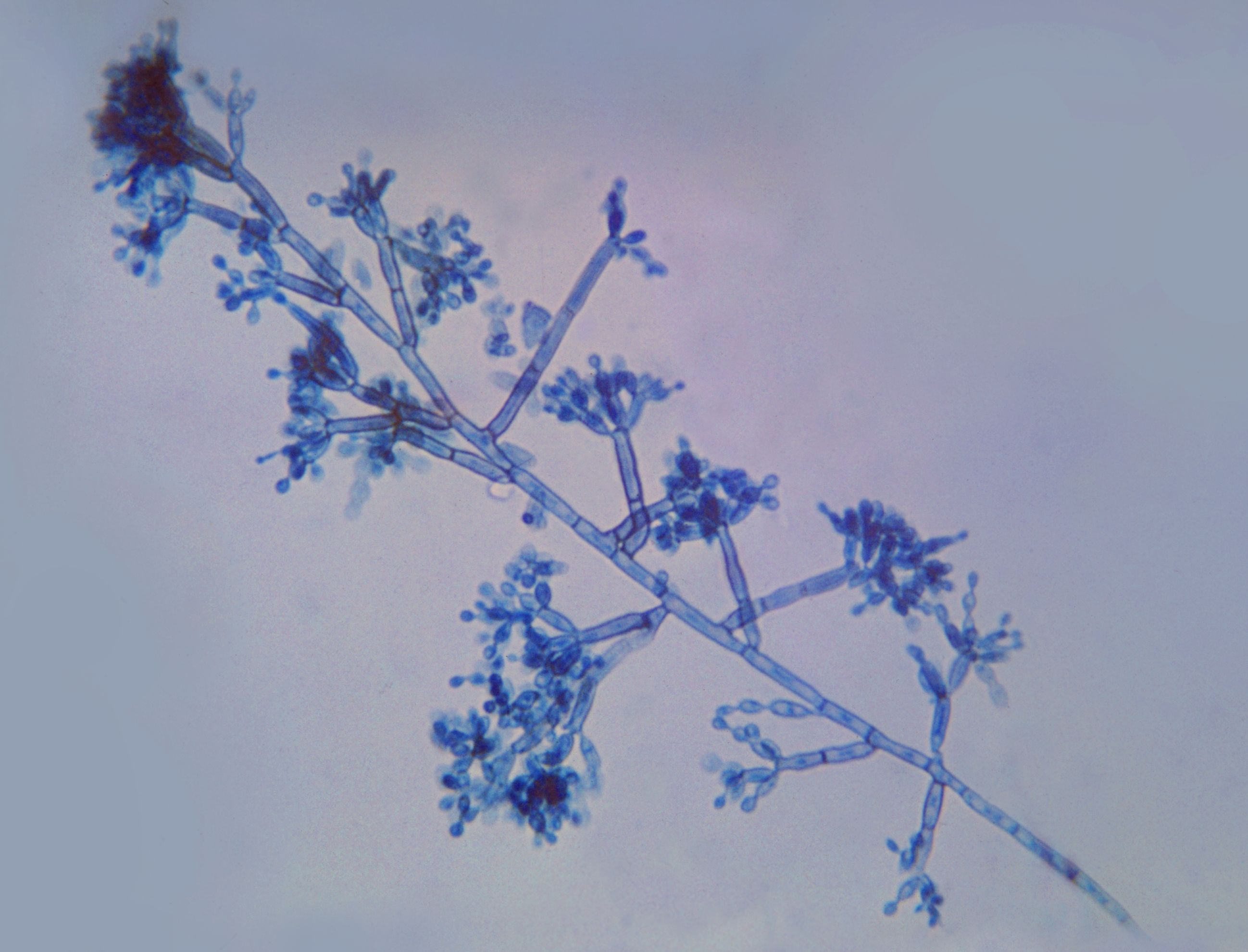 This is a photomicrograph of the dematiaceous, or dark colored fungi Fonsecaea pedrosoi. Fonsecaea pedrosoi is one of the many fungi associated with the chronic fungal infection Chromoblastomycosis. This chronic fungal infection results in raised crusted lesions affecting the skin and subcutaneous tissue.